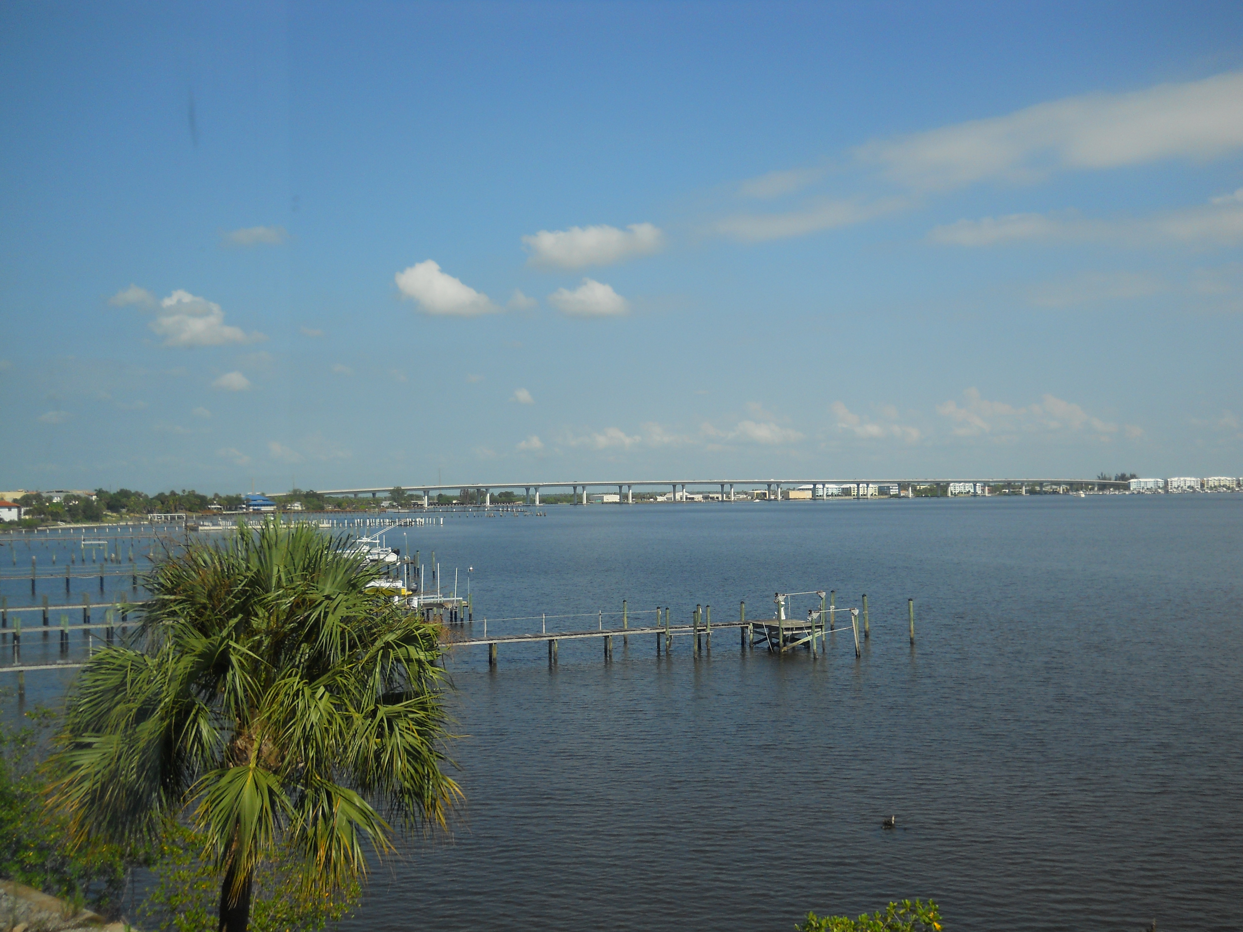 The new Roosevelt Bridge in Stuart, Florida, from the second floor of 509 Riverside Drive